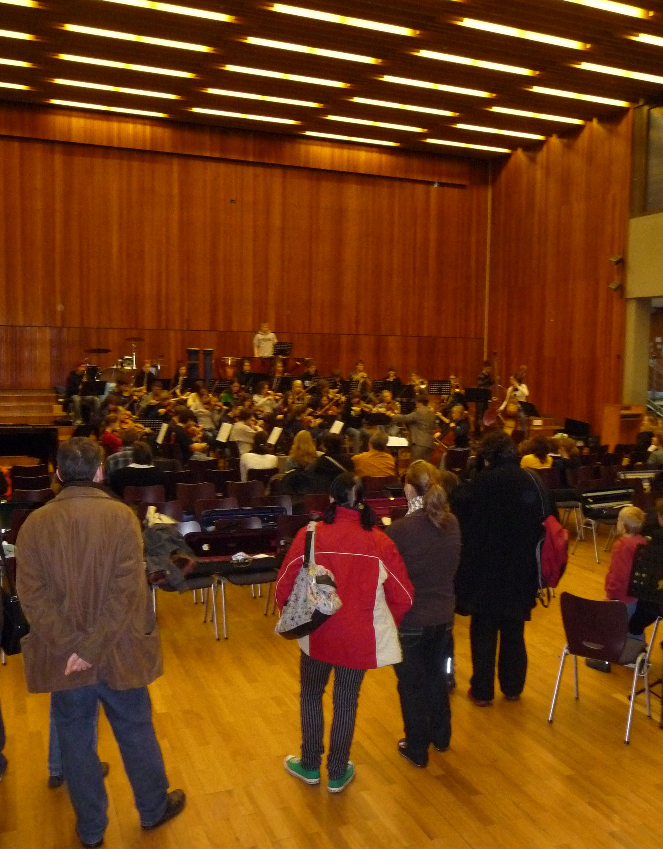 School in Ludwigshafen, Germany